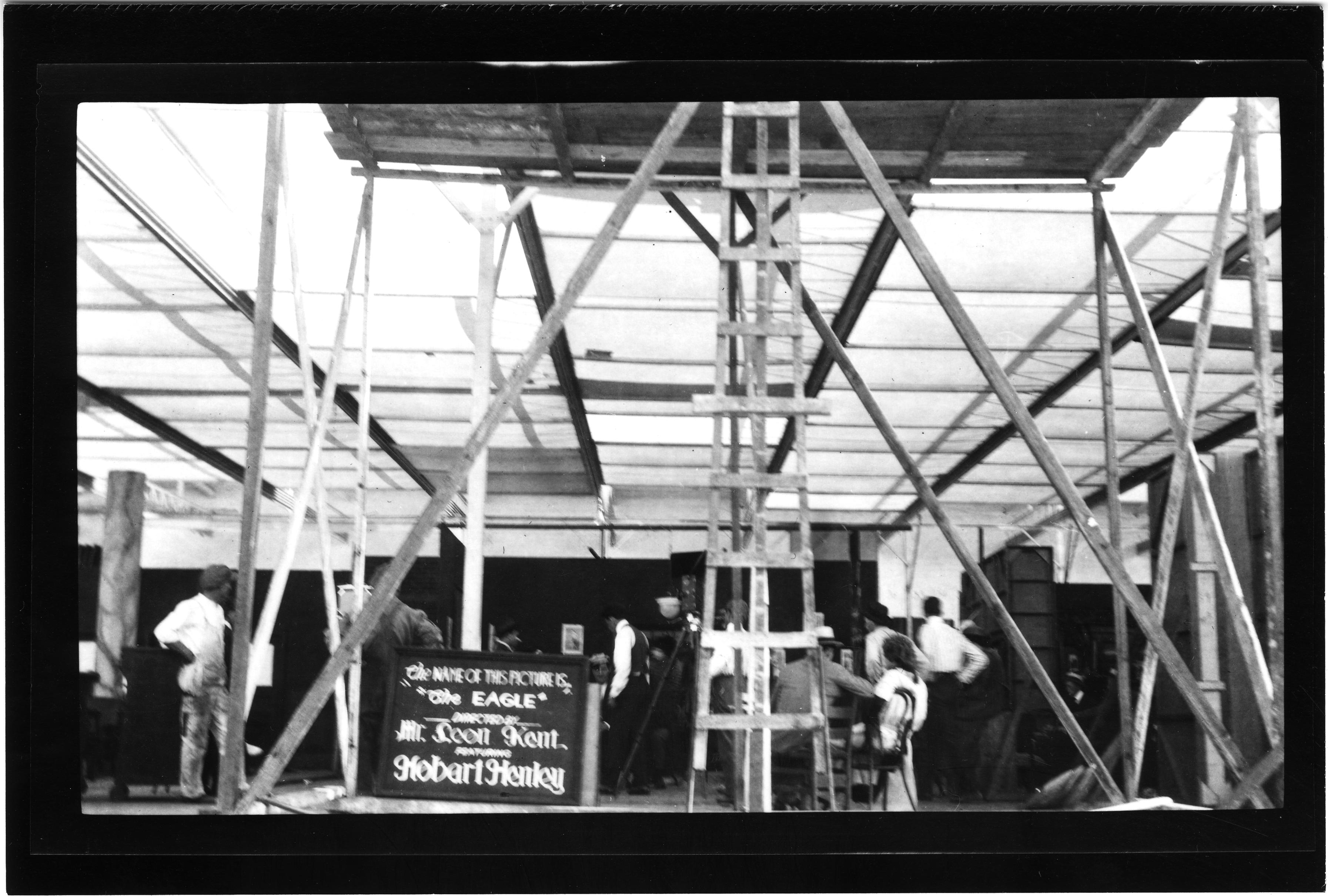 Collection: Painter (Milton McFarland, Sr.) Collection Call number: PI/1988.0006 System ID: 99446 Pictures taken on trip to Canada and west 1915. Framework structure on movie set. Sign reads 'The name of this picture 'The Eagle' directed by Leon Kent, starring Hobart Henley.' Please see our profile page for information on ordering. Scanned as tiff in 2008/08/29 by MDAH. Credit: Courtesy of the Mississippi Department of Archives and History